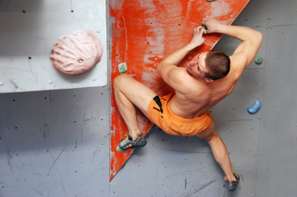 Indoor "bouldering" — on a climbing wall in Russia.